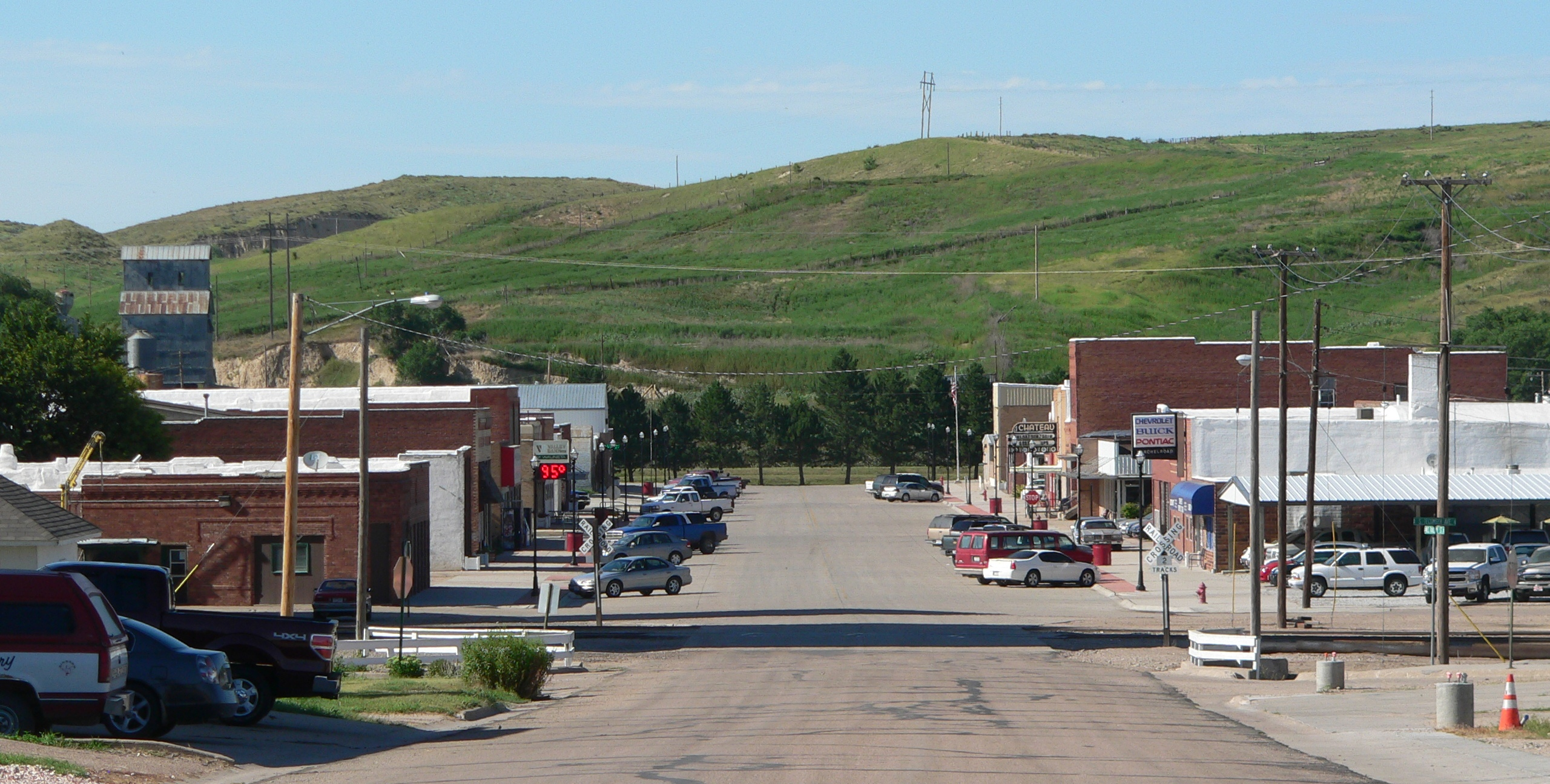 Downtown Wauneta, Nebraska: facing north along Tecumseh Avenue.